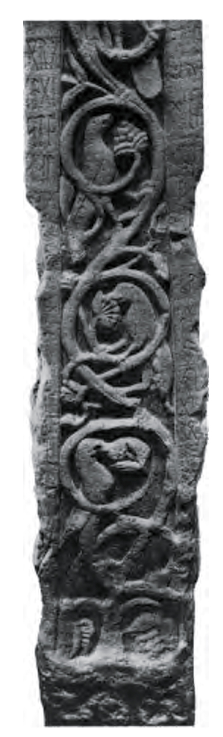 Captioned as "Fig. 11. Ruthwell Cross, West Face, near bottom."